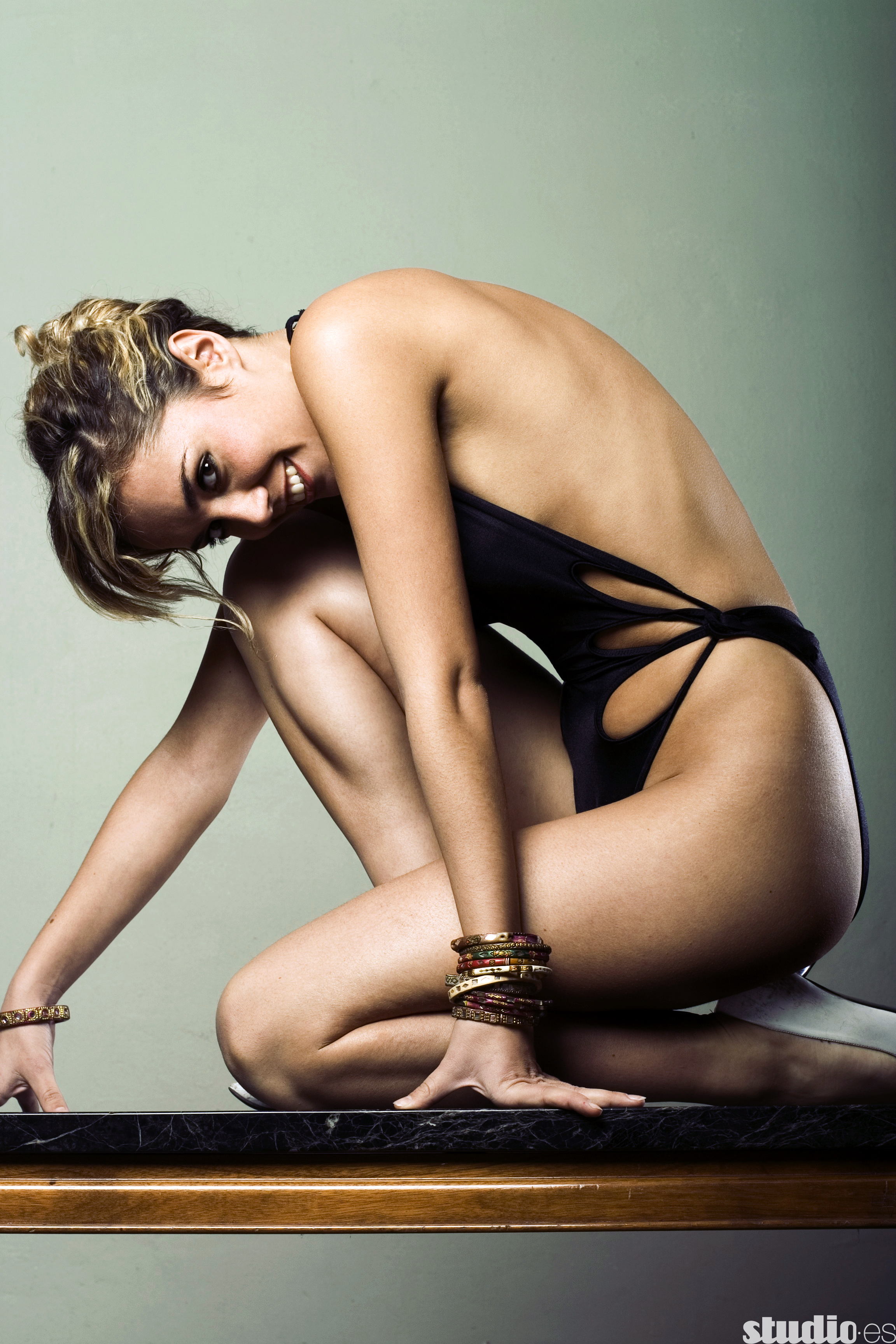 Shooting for again, many models, tough to get creative. Used a 100 x 100 softbox as main then the 70 x 70 straight in her back. Can't wait to buy the OCTA 190! See this set for more models. Best view large (click "all sizes") Also see Max's pictures and more of Miriam here. Part of my Top 20... MISS TARRAGONA 2006